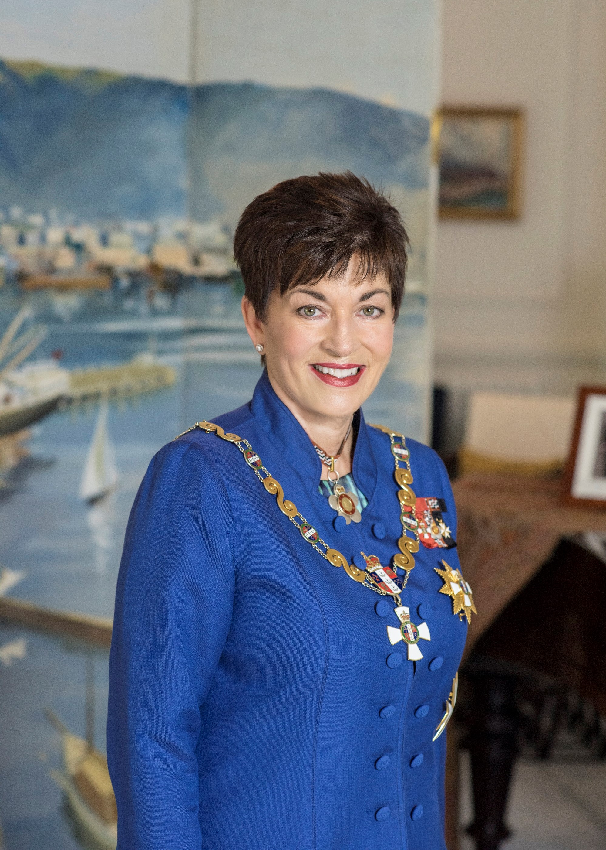 Patsy Reddy official portrait